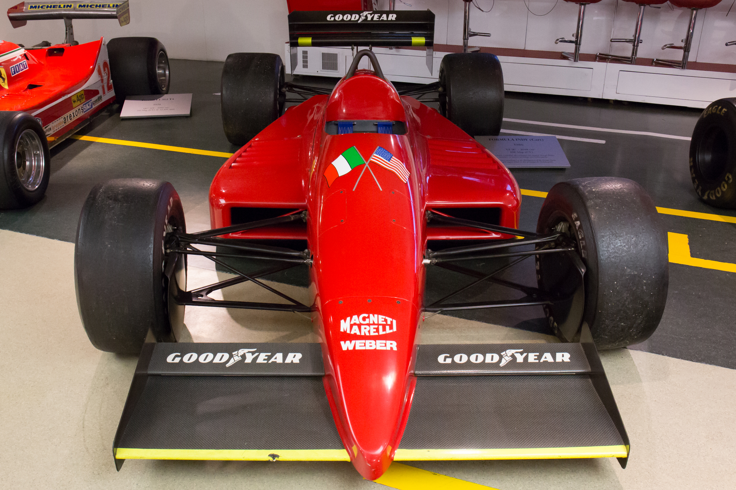 Ferrari 637